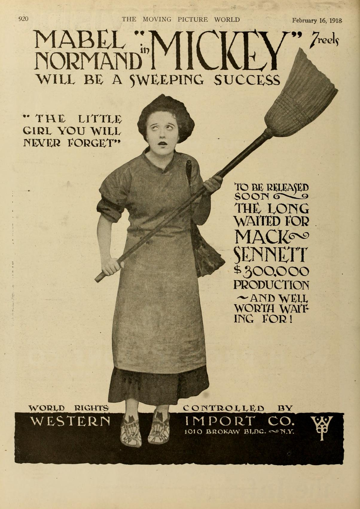 Advertisement in Moving Picture World for the film Mickey (1918}.